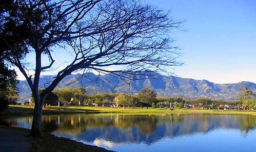 La Sabana Metropolitan Park — large urban park in San José, Costa Rica.